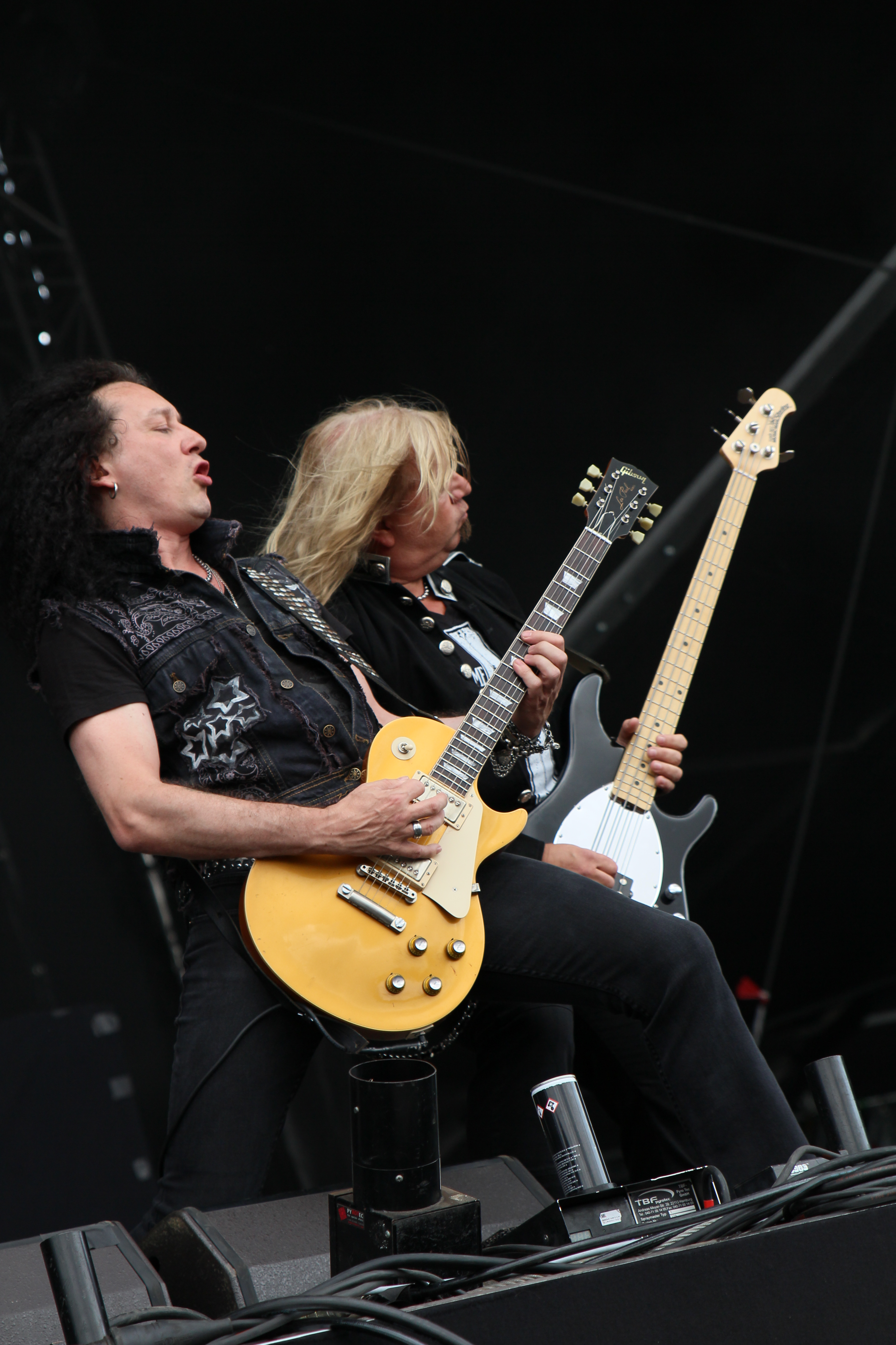 The German speed/power metal band Primal Fear at the Rockharz Open Air 2014 in Ballenstedt/Germany